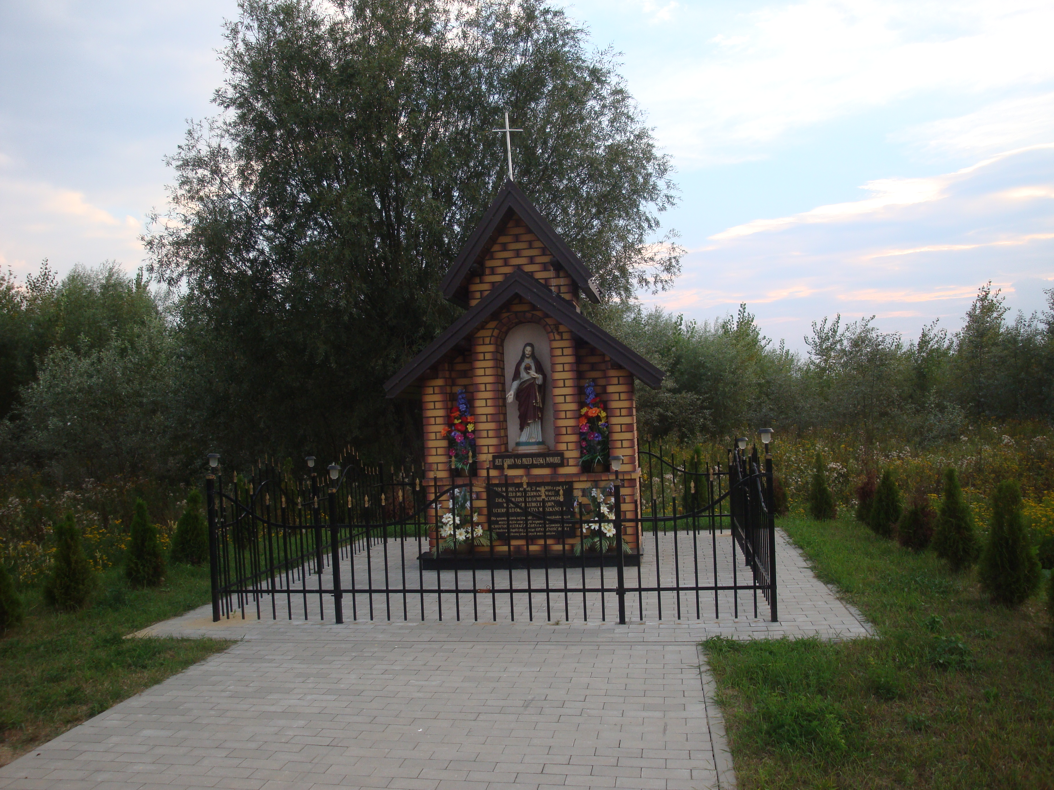 Świniary in Płock Count, Poland. Place where Vistula broke levee in 2010. Smal shrine commemorising disaster and people, who fighted flood.